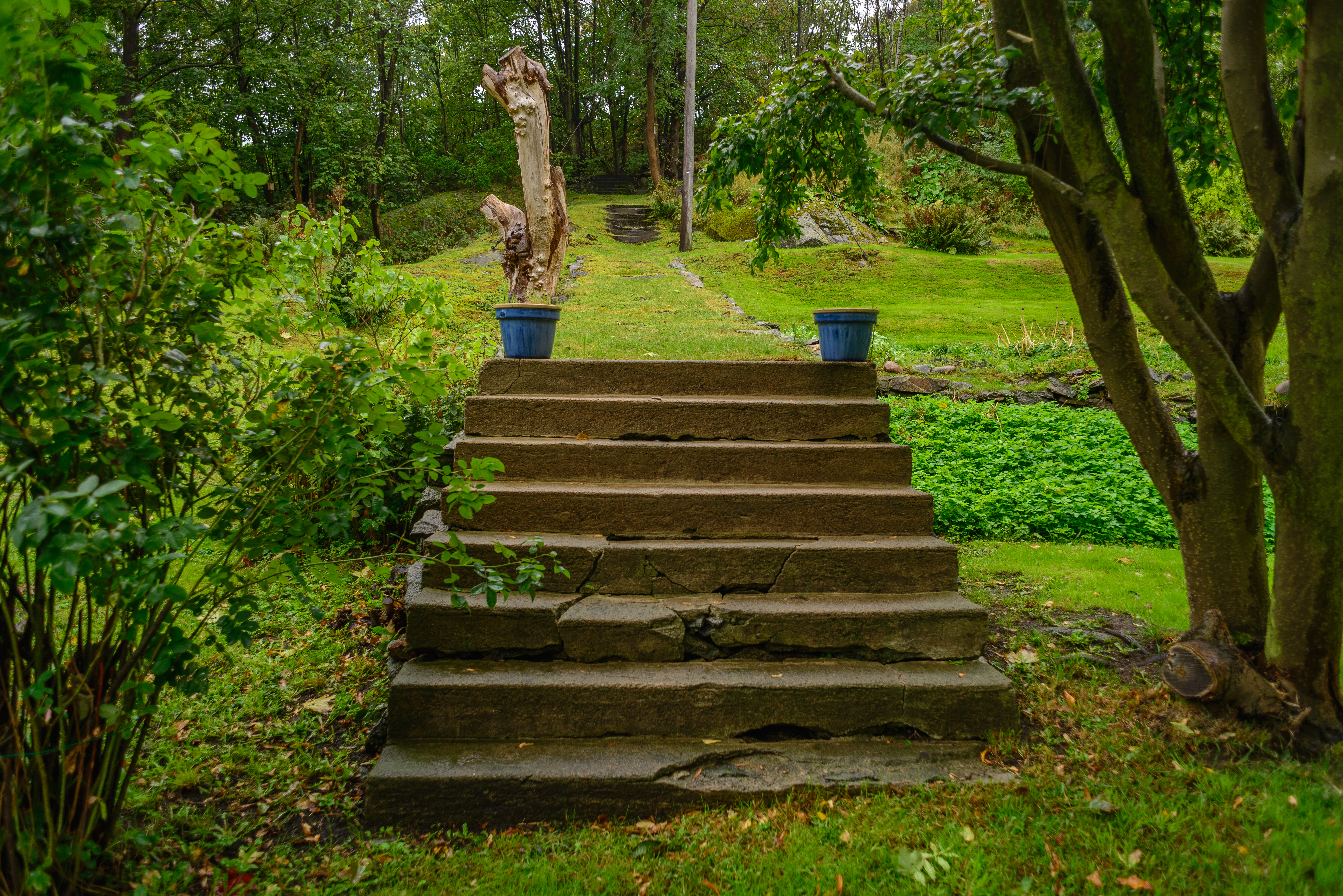 Färjestaden, Göteborg.